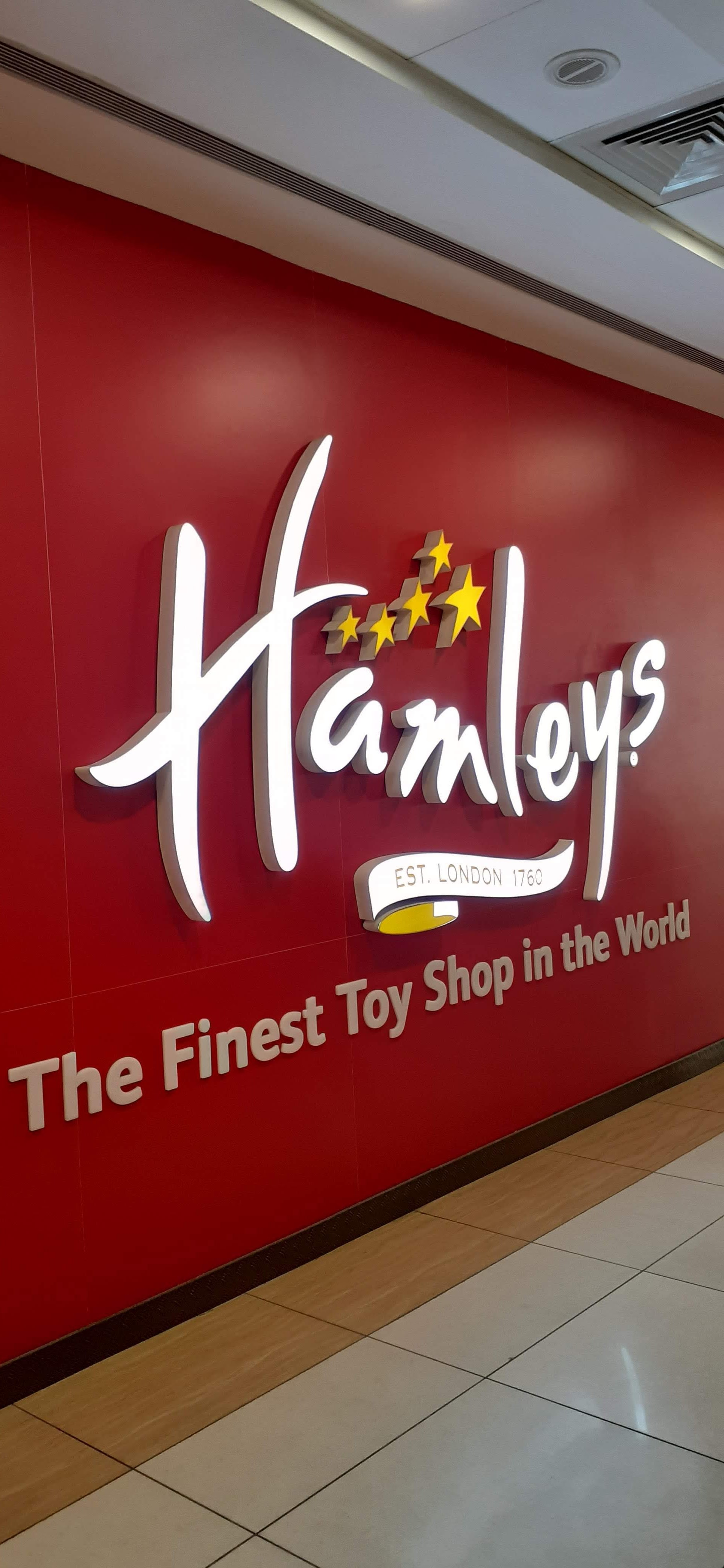 'Hamleys' (the finest Toy shop in the World), in Tamil Nadu, India.